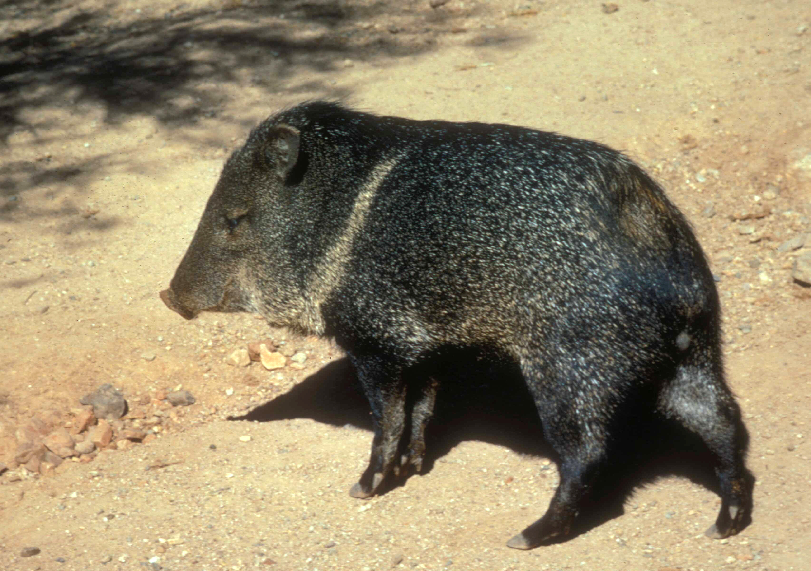 Javelina or collared peccary in Saguaro National Park, Arizona, United States